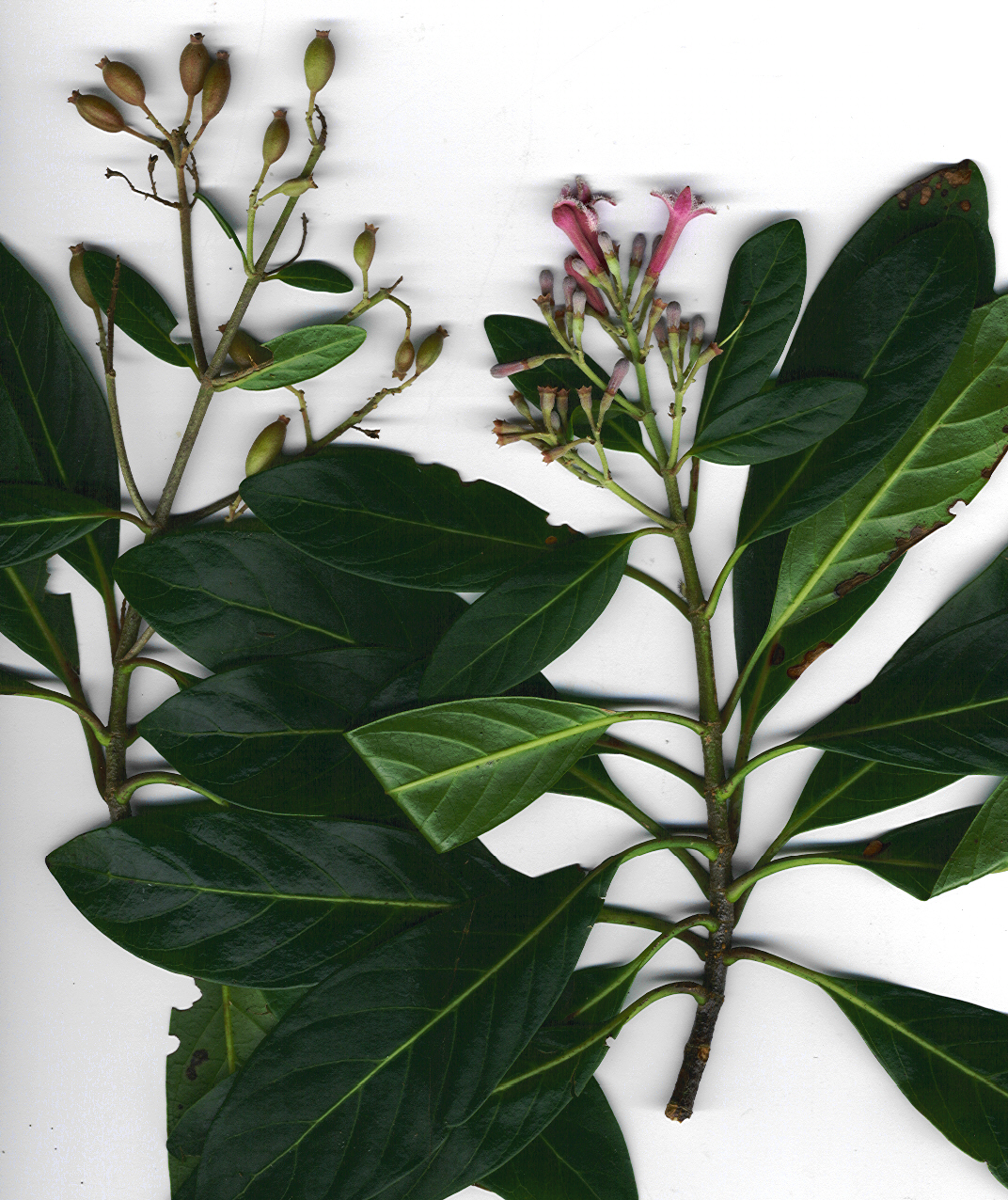 Cinchona calisaya (branch). Location: Maui, Makawao Forest Reserve